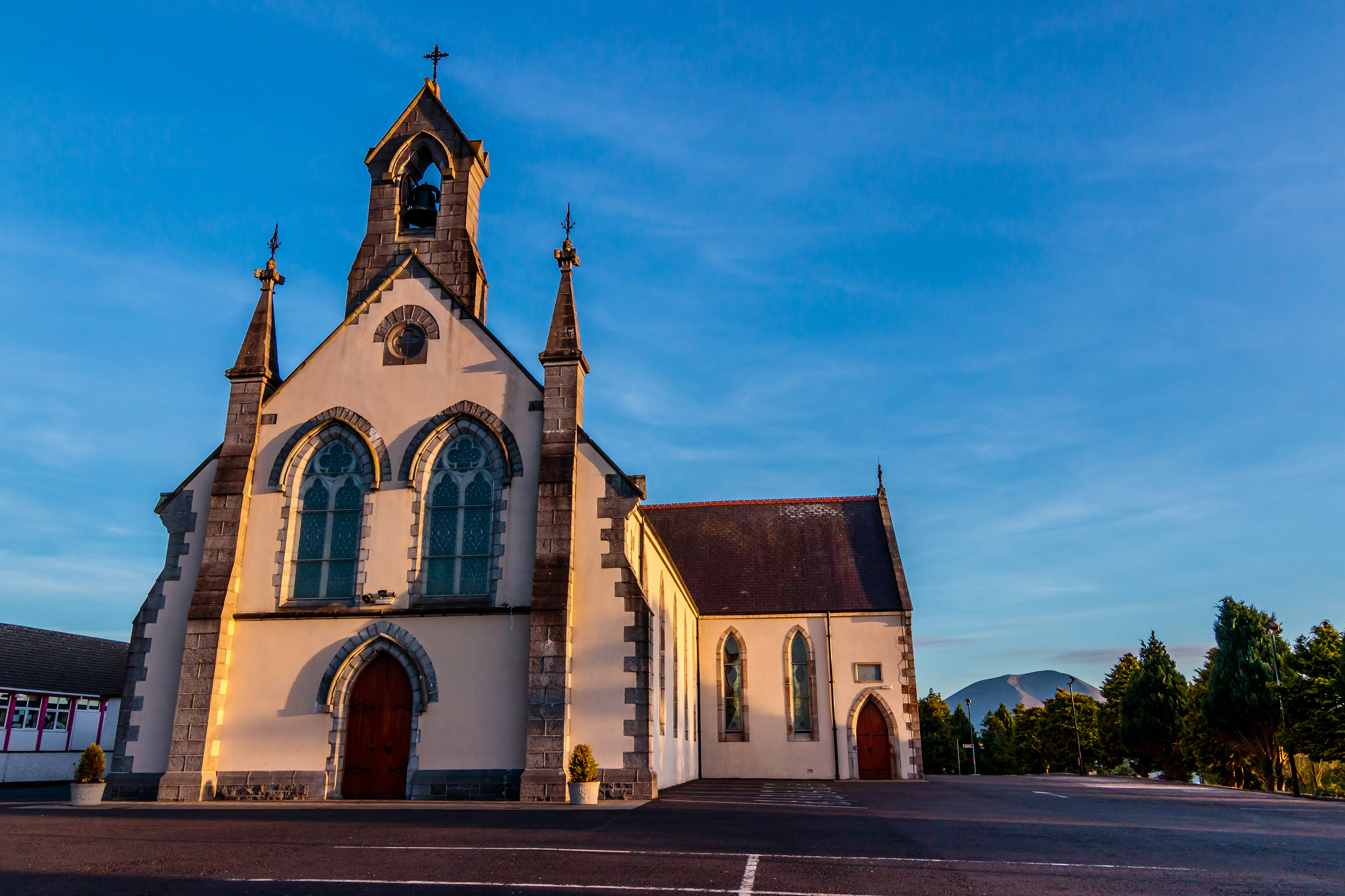 Saint Tiernan's Church, Crossmolina, at sunset.